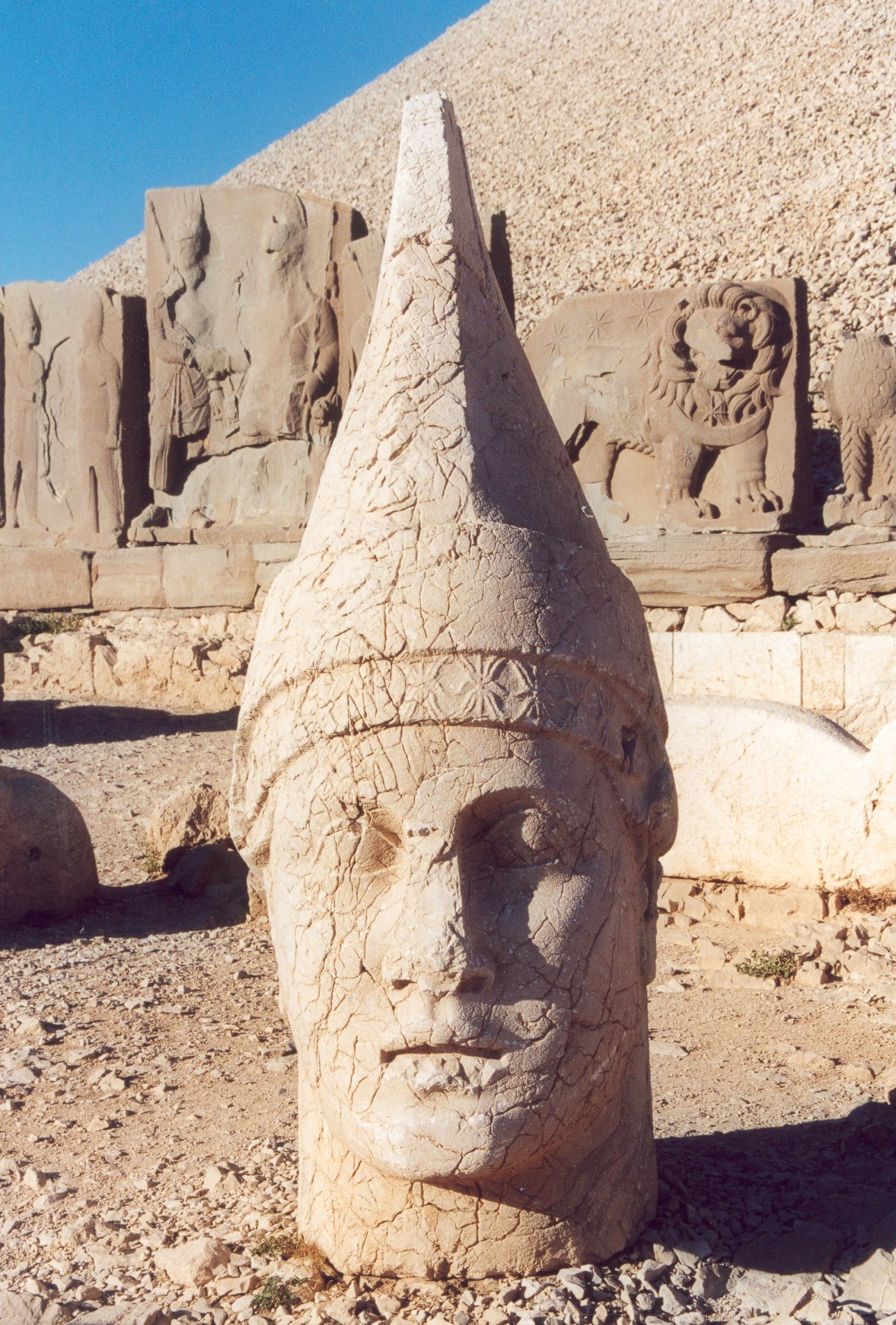 Turkey: Nemrut Dağı, East Terrace. Head of armenian god Tir (greek Apollon, ? Mithras). In the background from left to right three coronation steles of King Mithradates I Kallinikos meeting Zeus/Oromasdes and Artagnes/Herakles/Ares plus the Lion Horoscope. Date: August 2001